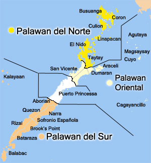 A plebiscite will be held to divide the Palawan province into three major provinces and one Independent component cities (Puerto Princesa City)